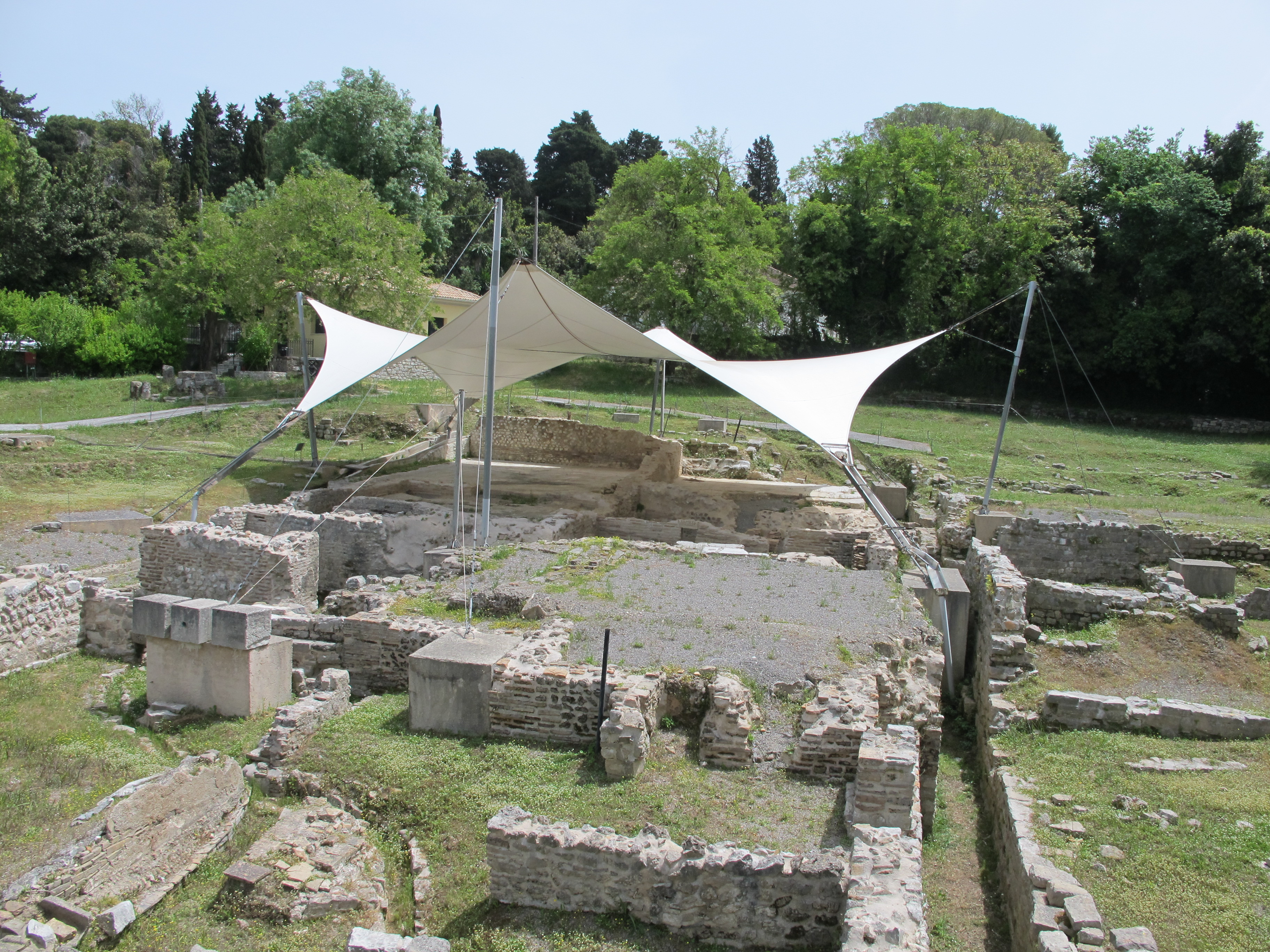 Ruis of the roman baths in Palaiopolis, Kanoni on Corfu